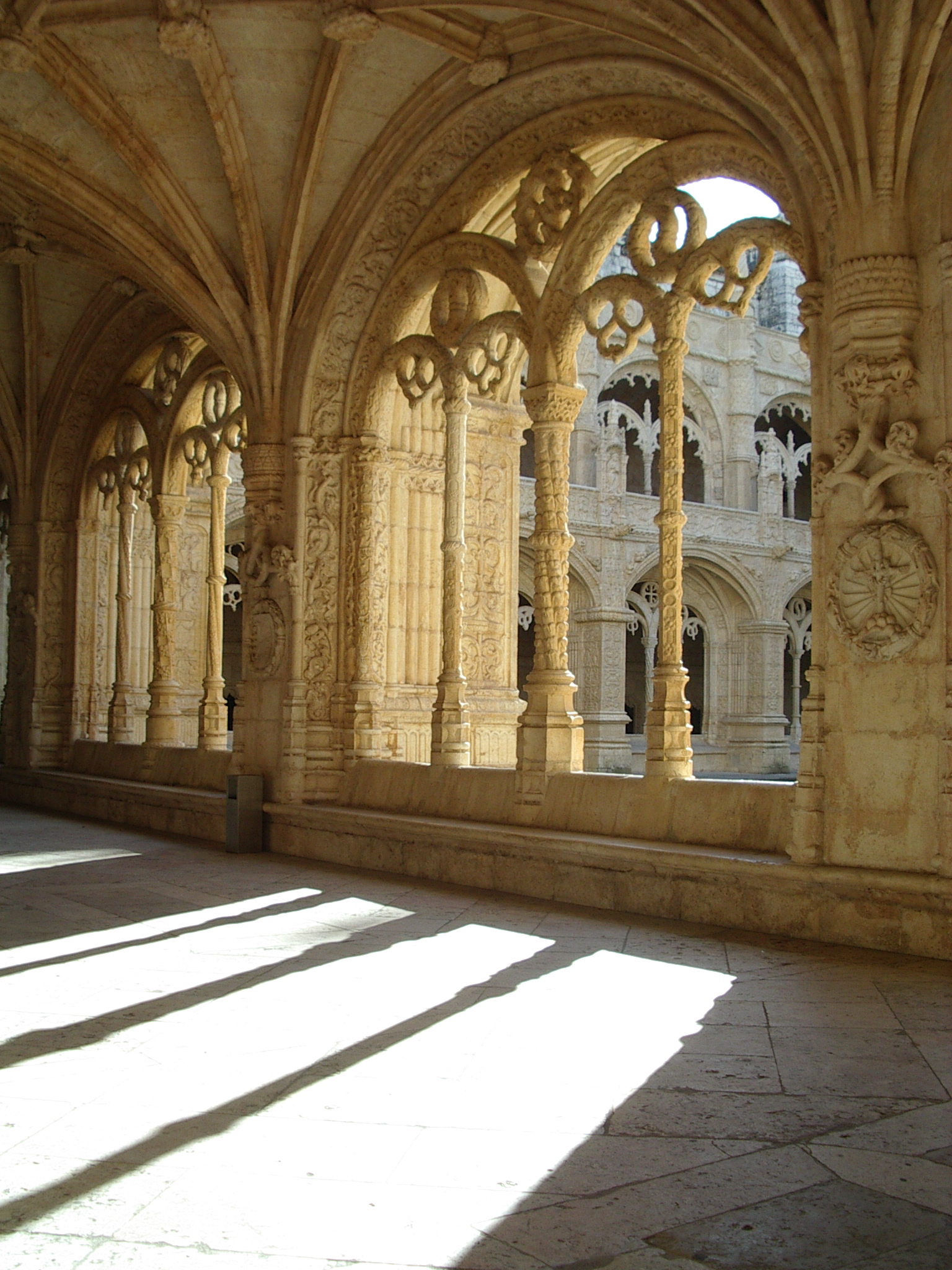 Cloister of Monastery in Belem (near Lisbon) Photo: Marc Oliver Rieger